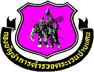 Emblems of Border Patrol Police (Thailand)